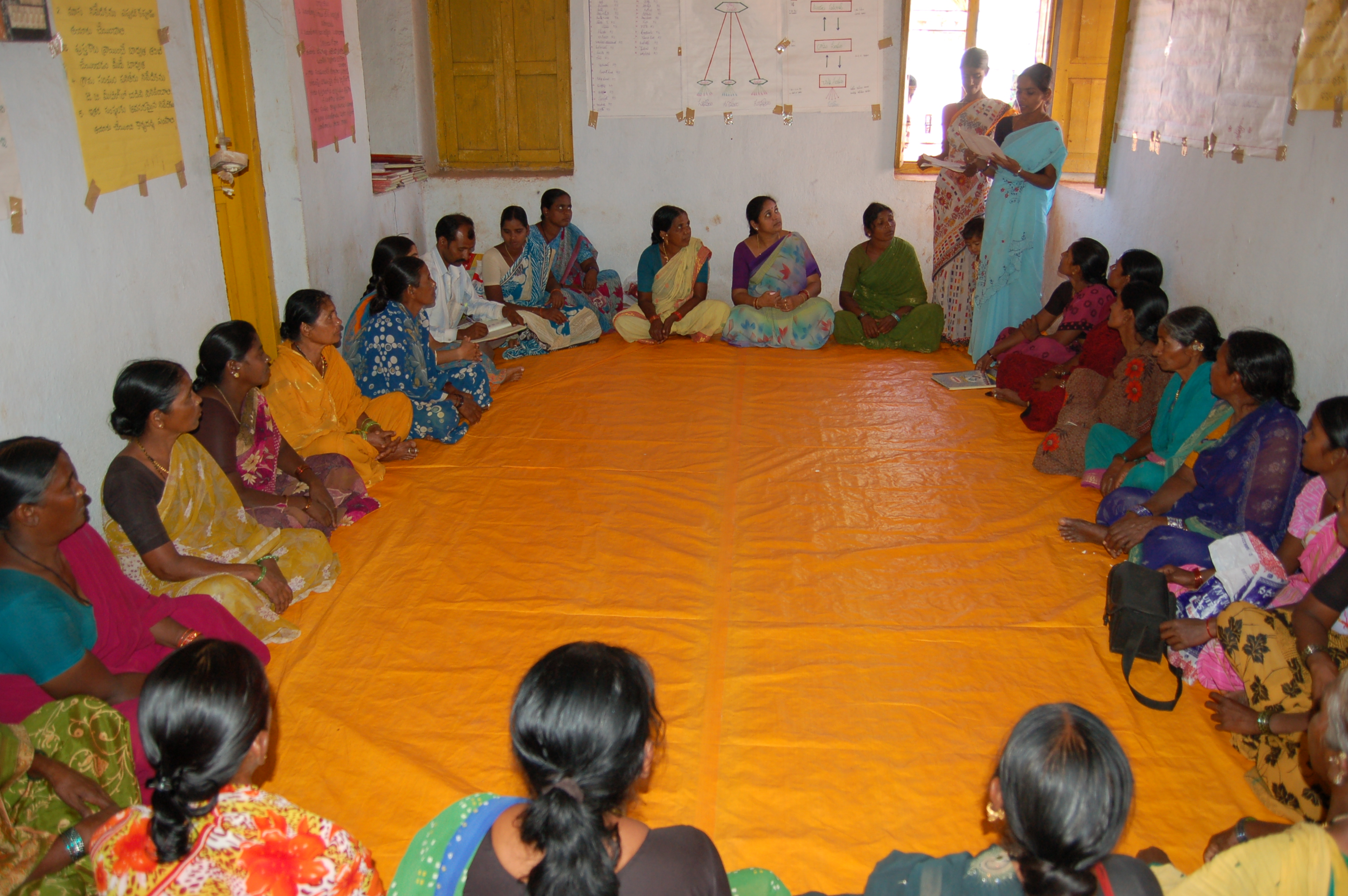 Women from Self Help Groups take part in a meeting in Andhra Pradesh.